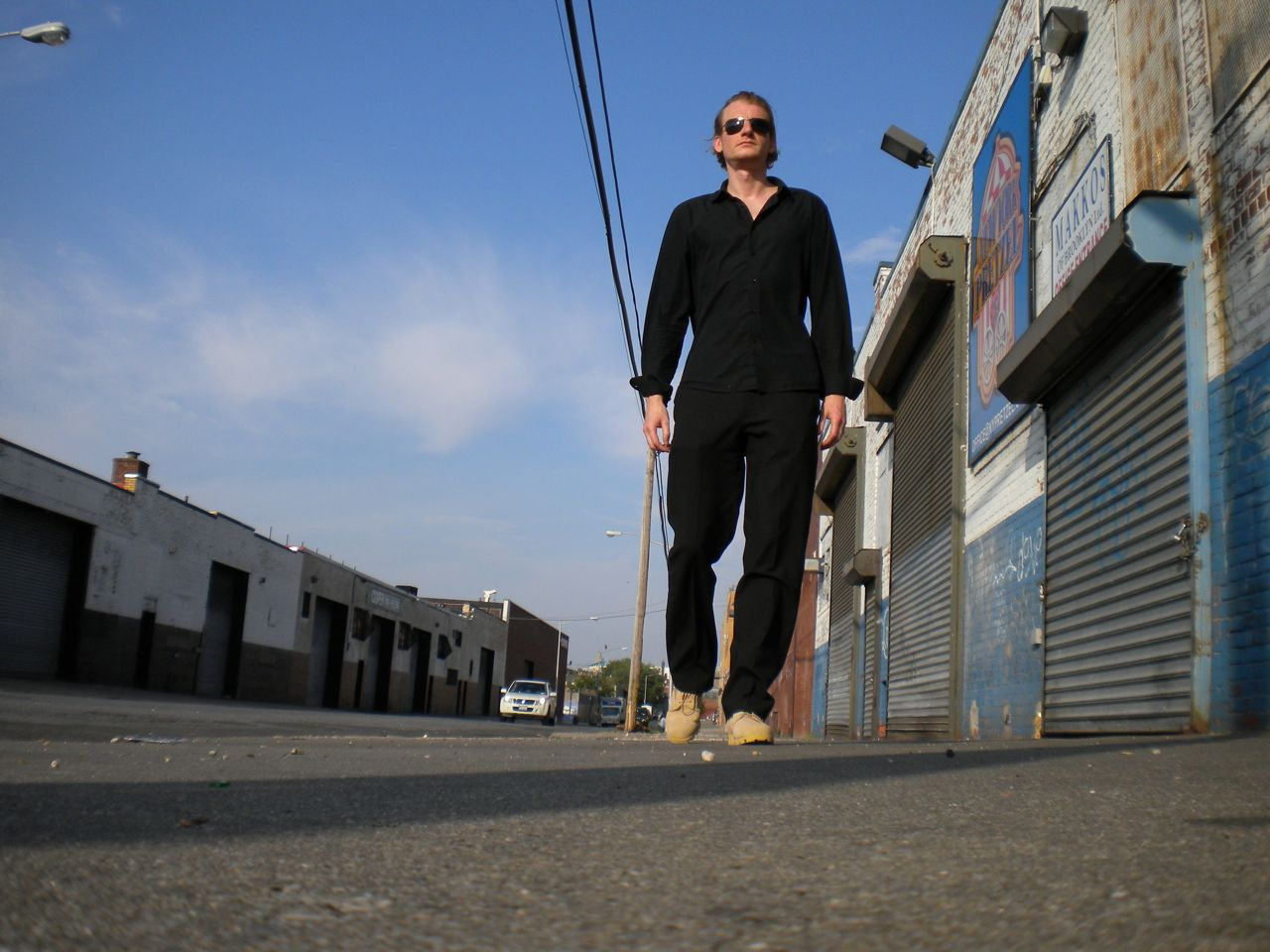 Thomas Altheimer in Bushwick